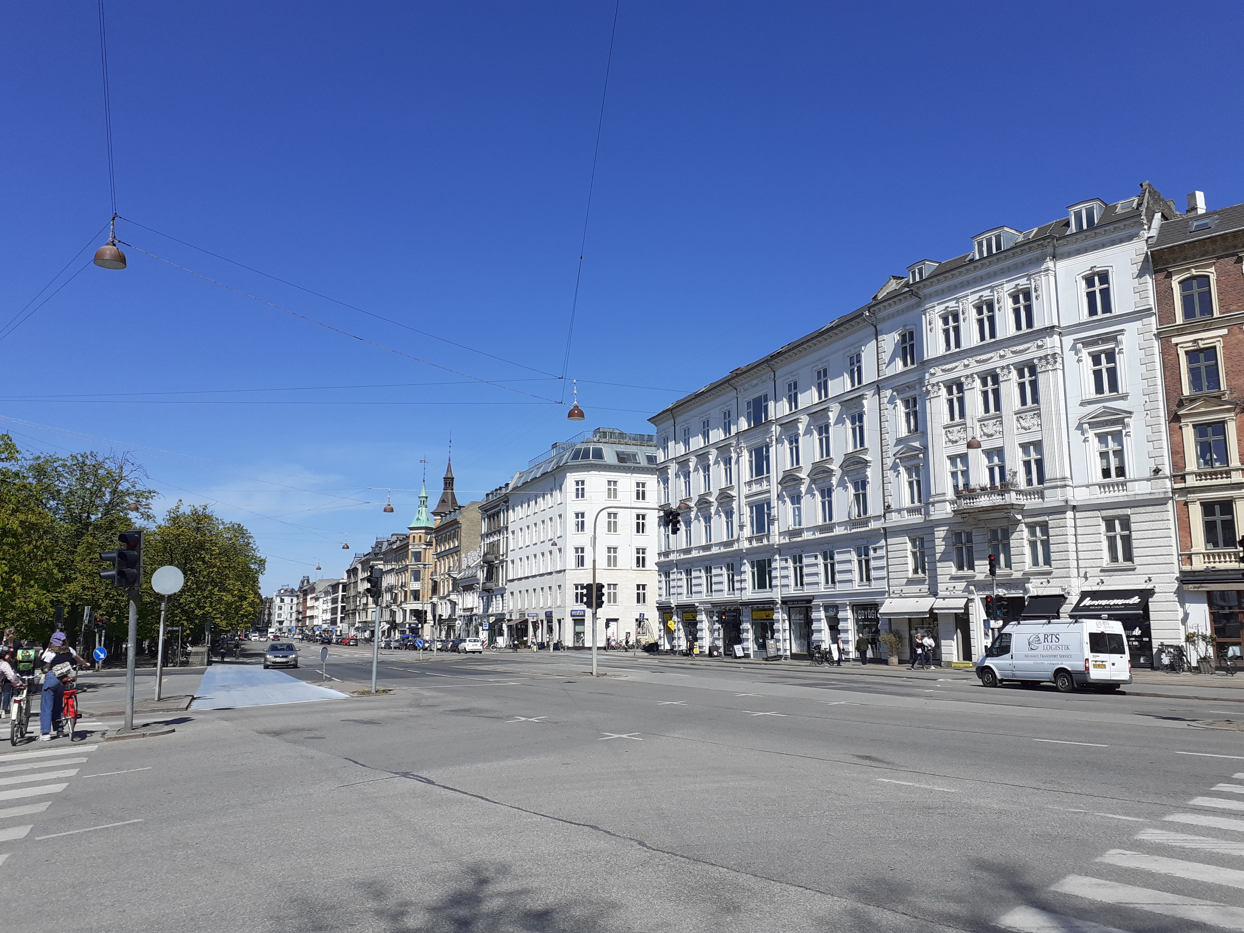 The street junction Lille Triangel in Østerbro in Copenhagen.